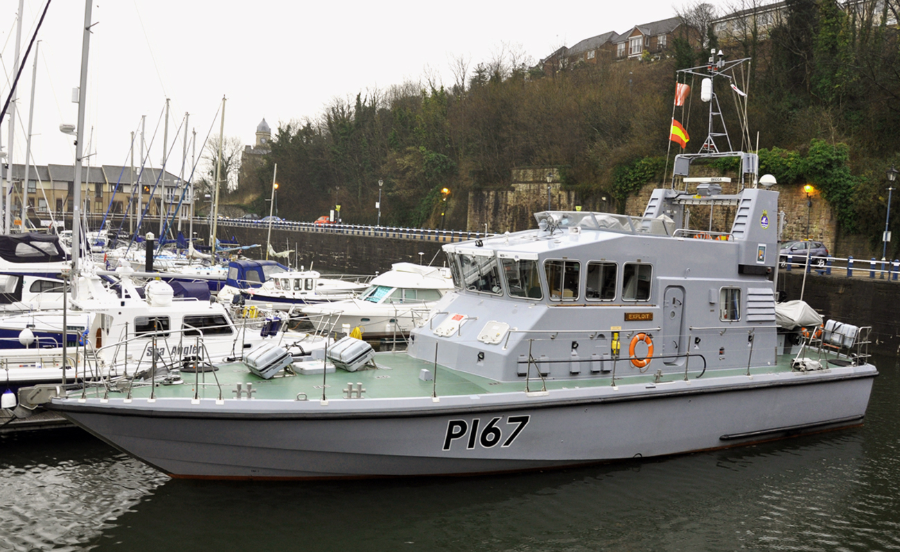 HMS Exploit - Penarth Marina HMS Exploit (P167), is a Royal Navy, Archer-class patrol and training vessel. She was built in Woolston by Vosper Thornycroft and commissioned in 1988. Originally ordered for the Royal Naval Auxiliary Service (RNXS) she is attached to Birmingham University Royal Naval Unit (URNU) providing training for undergraduate students in naval skills.